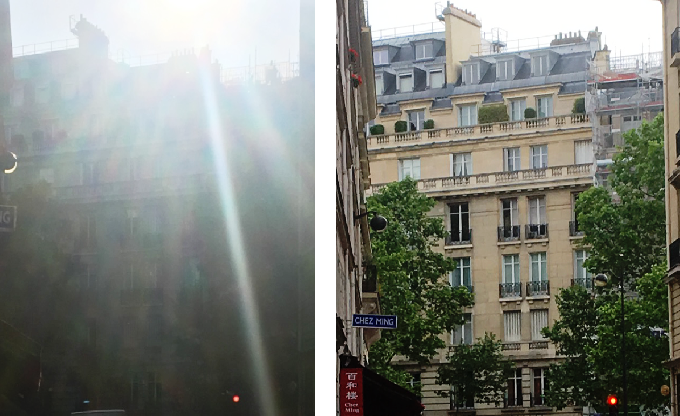 Cataract left